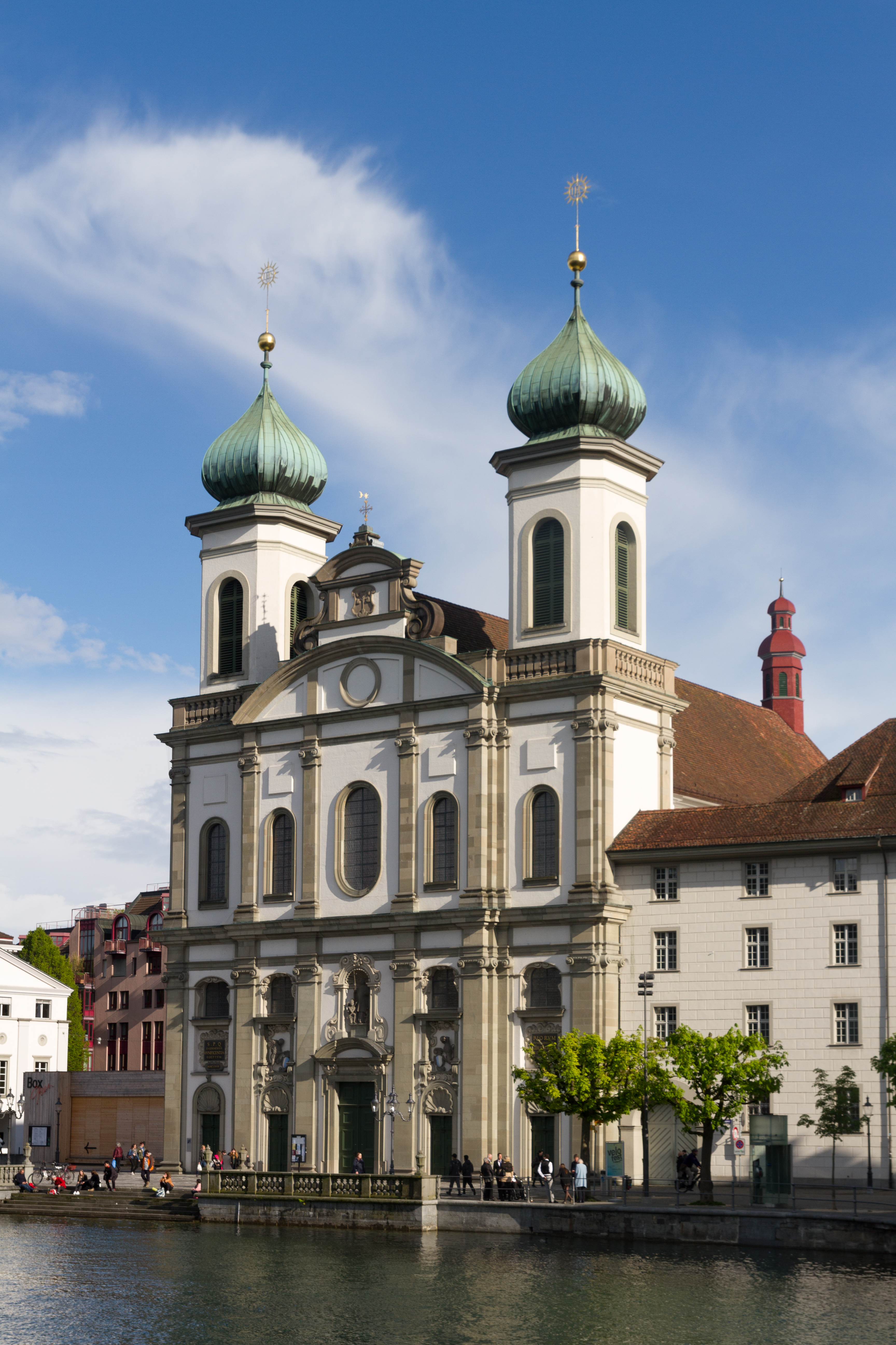 Jesuitenkirche Luzern